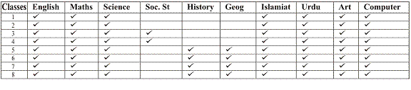 Subjects taught in middle school and junior school.